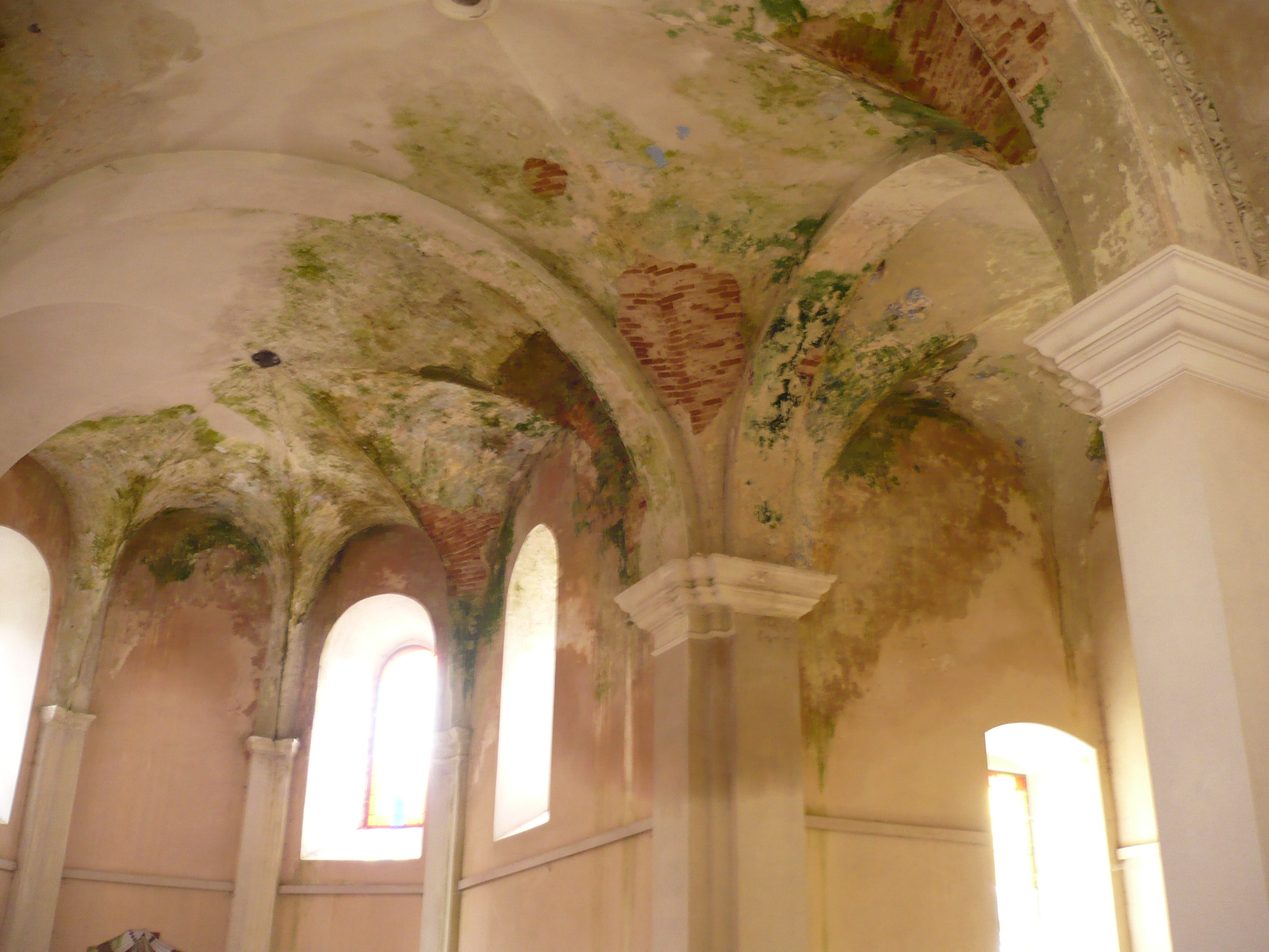 Church of the Assumption of Mary in Bilyi Kamin